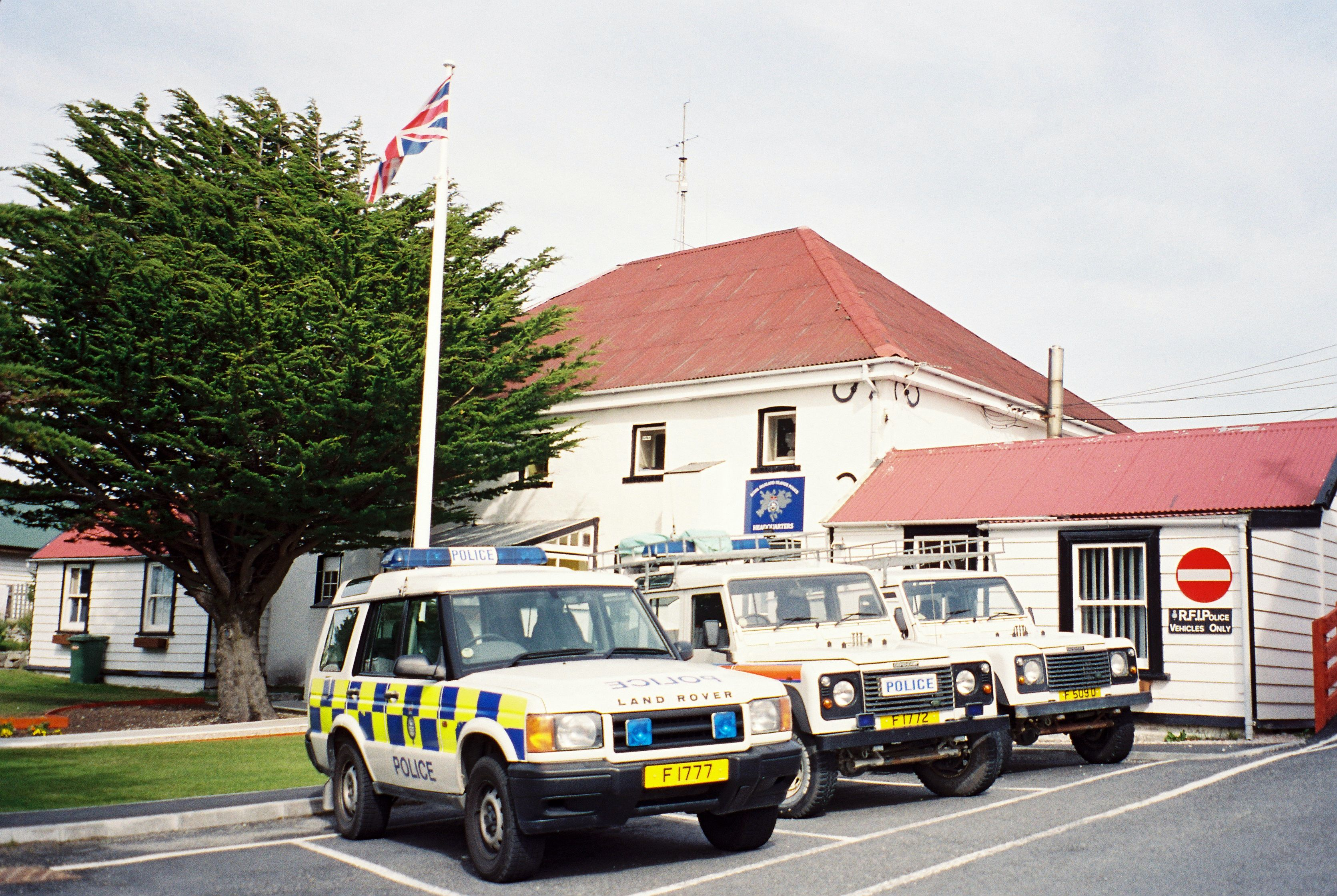 Royal Falkland Islands Police station, Stanley